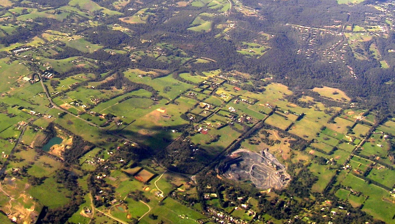 suburb of Harkaway Victoria Australia, north end with Pioneer quarry.